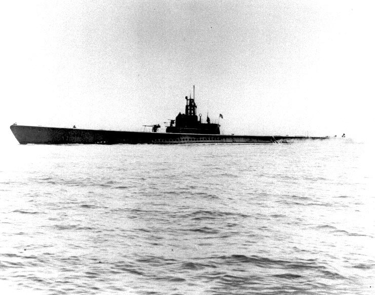 USS Sculpin (SS-191) off San Francisco, California, on 1 May 1943, following an overhaul. Original caption: “Photo # NH 97309 USS Sculpin off San Francisco, California, 1 May 1943” — removed caption